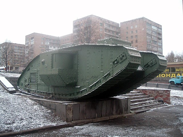 Mark V male tank at Lugansk memorial, Ukraine Author: Alexandr Chupryna Date: 06/12/2005